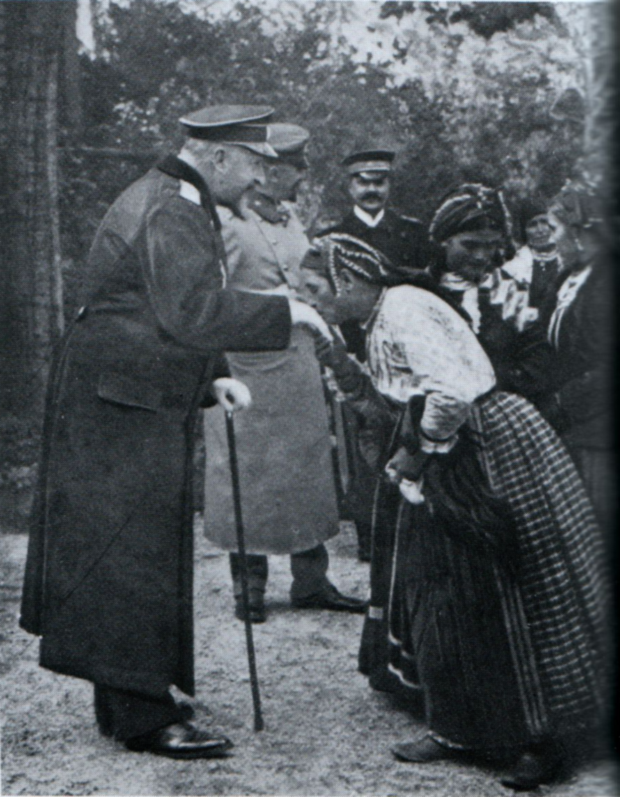 Bulgarian Tzar Ferdinand lets a peasant woman kiss his hand.